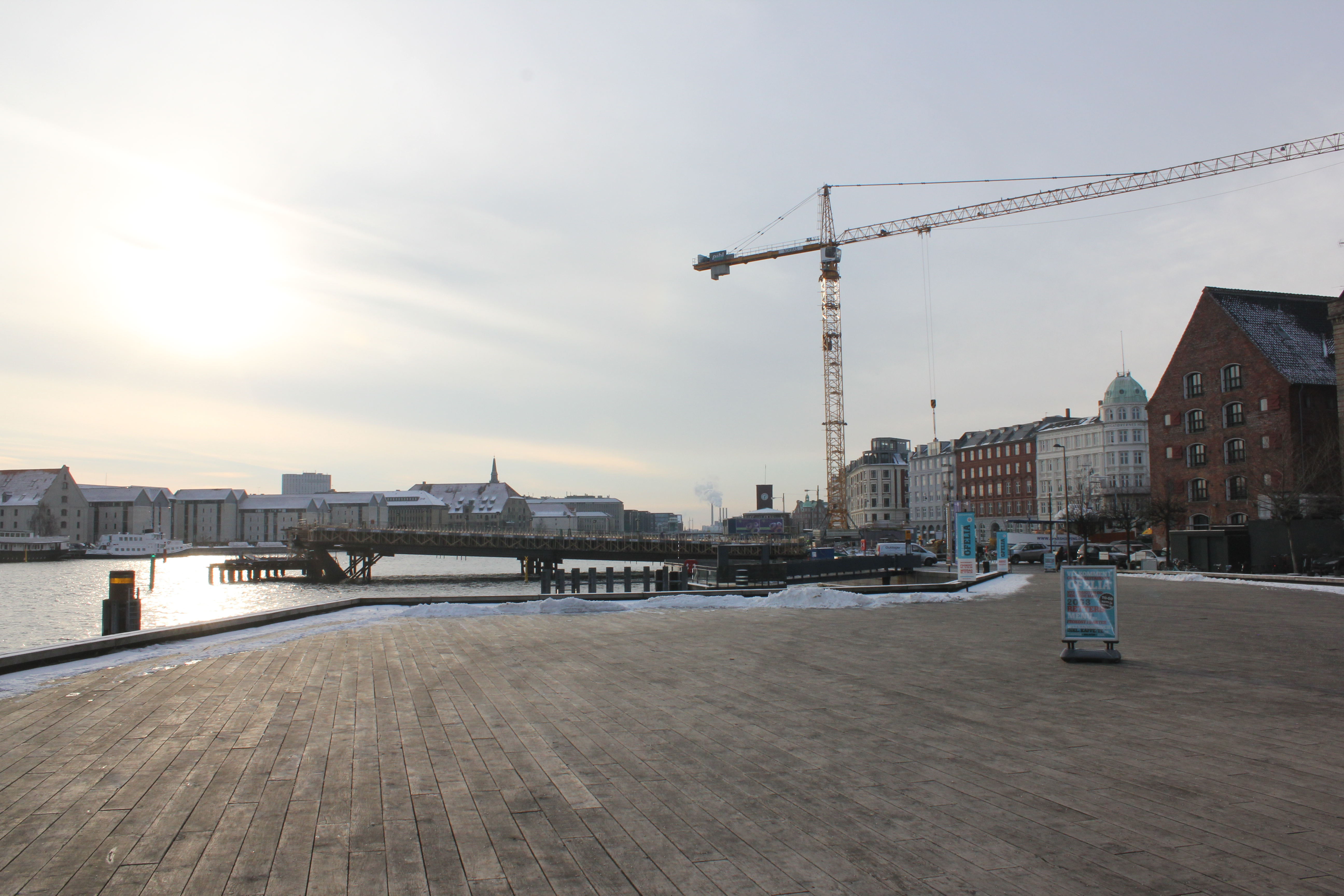 Inderhavnsbroen in Copenhagen under construction.